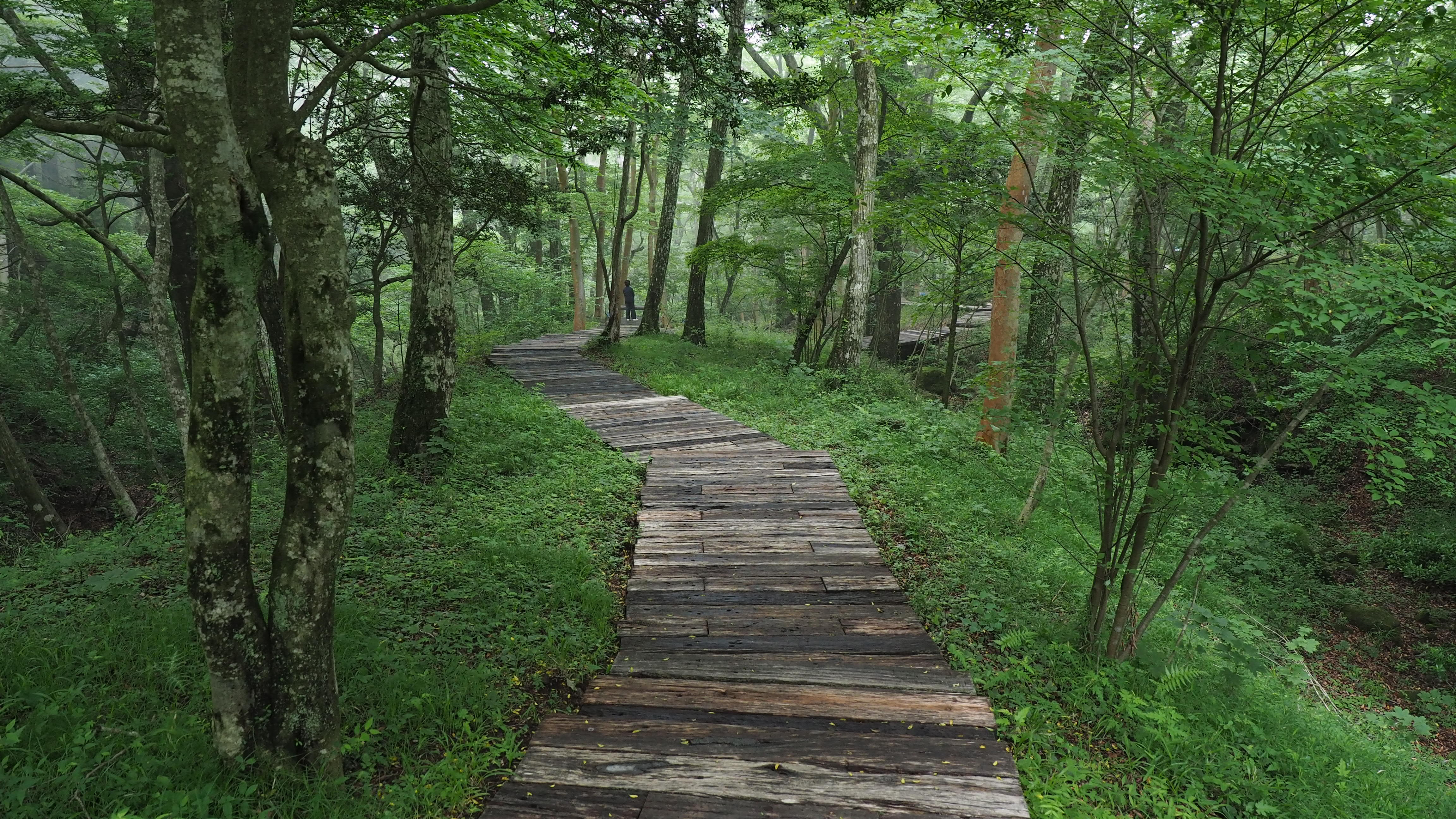 Hiking trail in Pola Museum of Art.(2019)